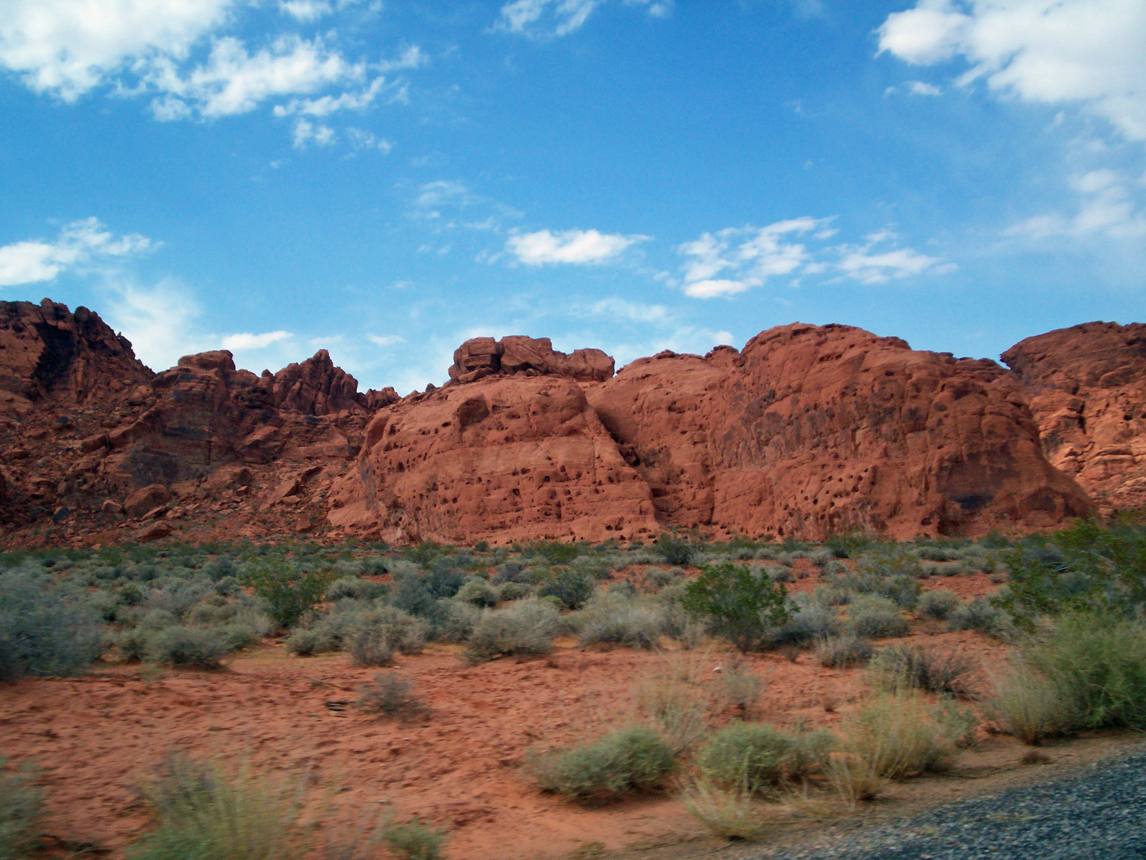 Valley of Fire State Park, Nevada